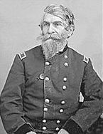 Brigadier General George Sears Greene, U.S. Army (1801–1899)